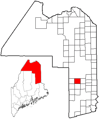 Adapted from U.S. Census Bureau maps (American FactFinder) and Wikipedia's ME county maps by Bumm13.